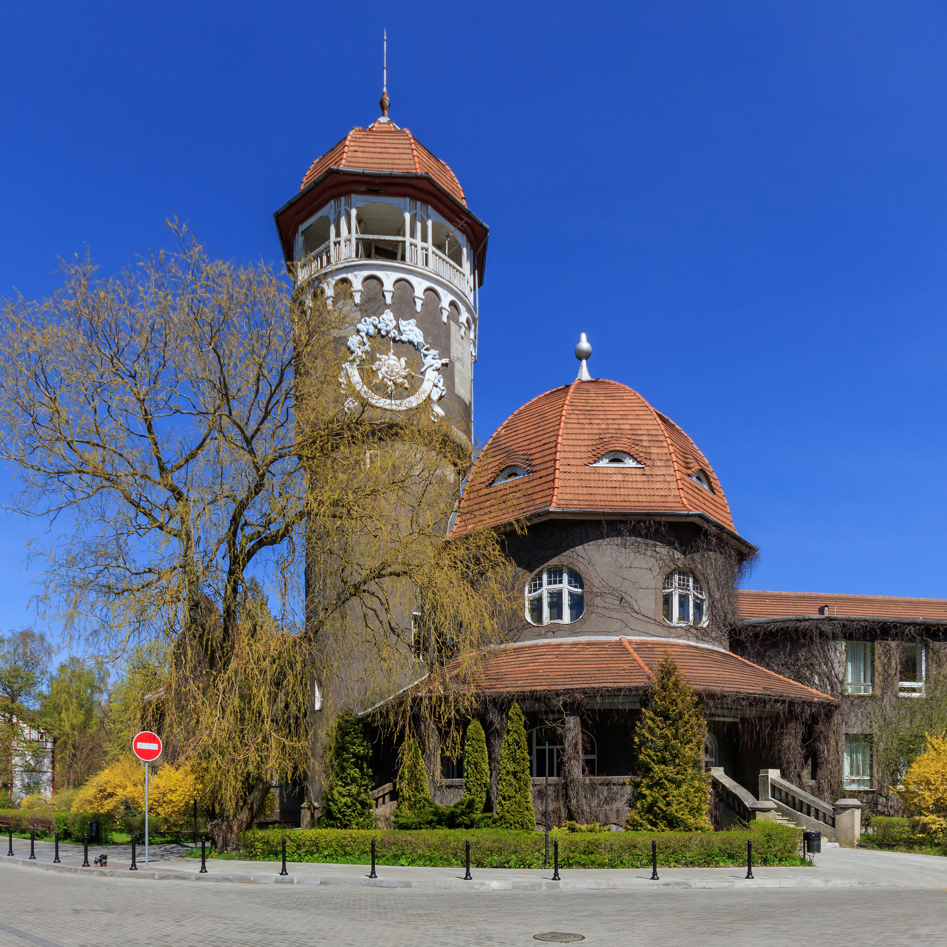 Historical water tower in Svetlogorsk formerly Rauschen / Kaliningrad Oblast (Russia).